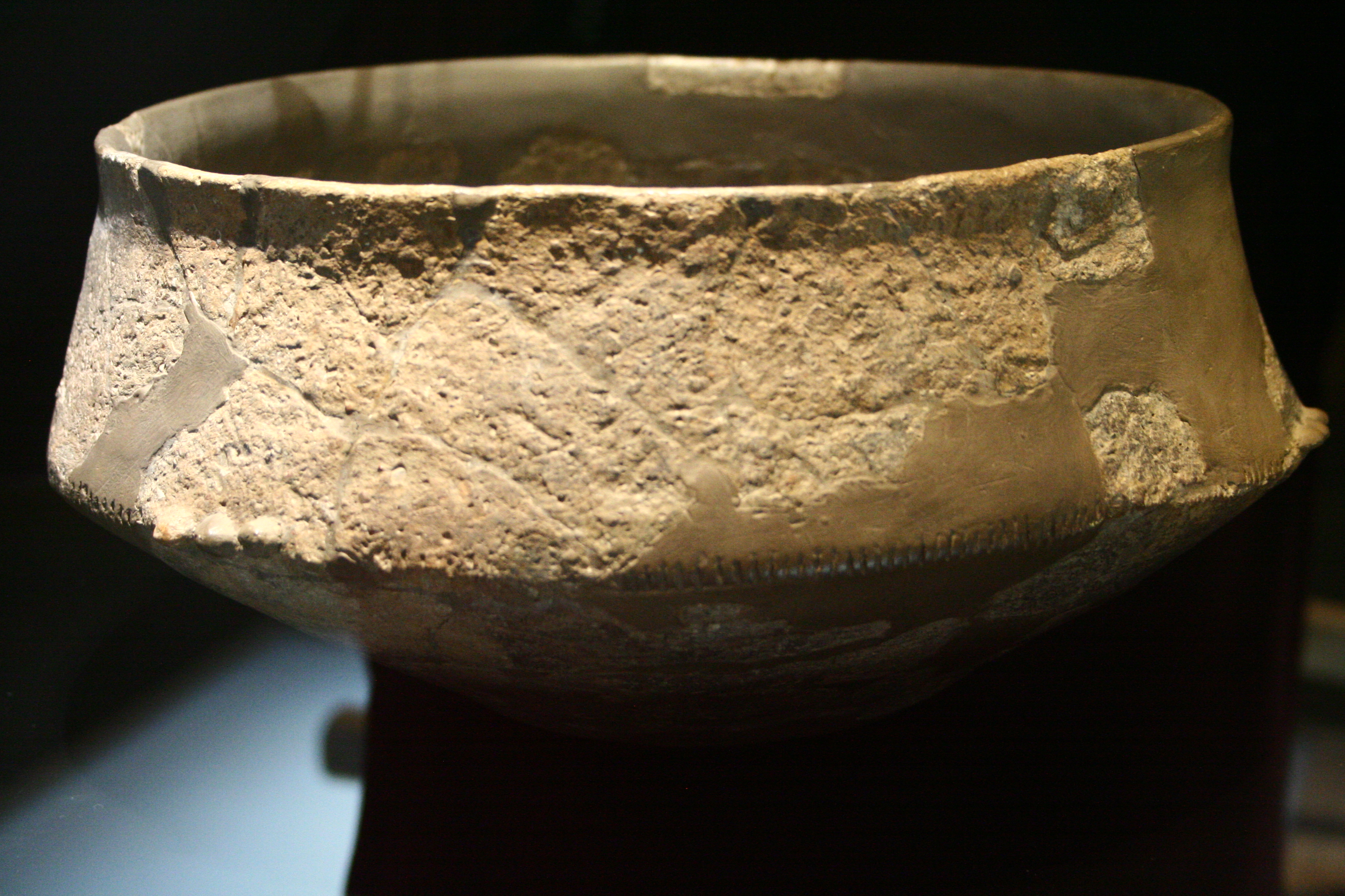 Kink-walled bowl from a tomb at Unterjettingen, State museum Württemberg, Stuttgart